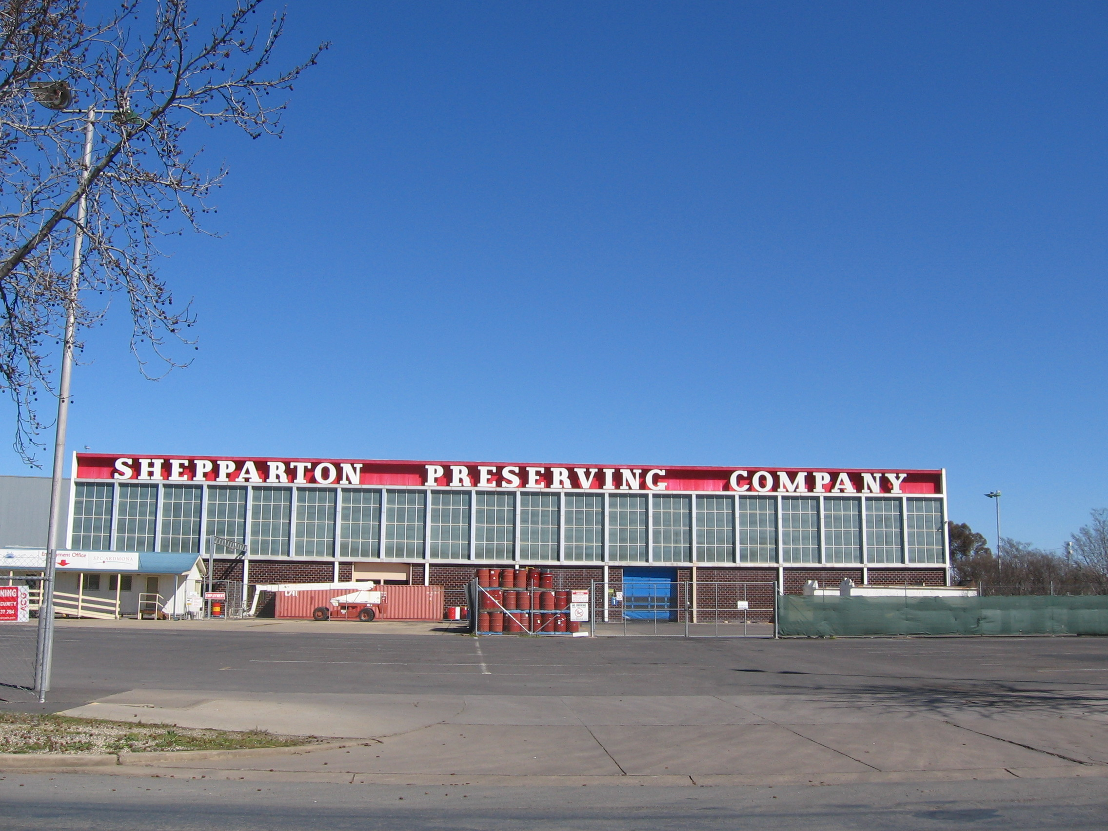 Shepparton Preserving Company factory in Shepparton, Victoria